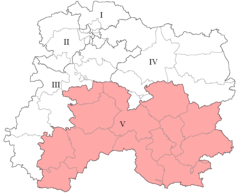 Locator map of the Marne's 5th constituency since 2012.